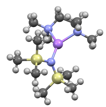 structure of LiHMDS-tmeda complex